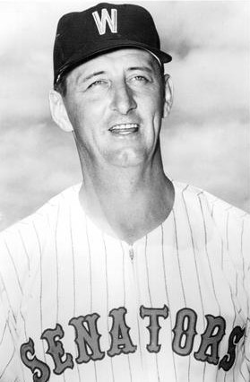 Professional baseball player Dick Donovan